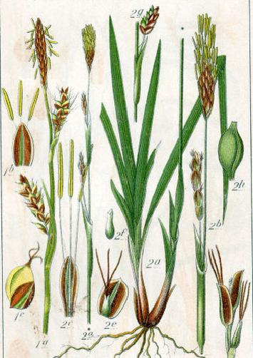 Carex panicea, without captions